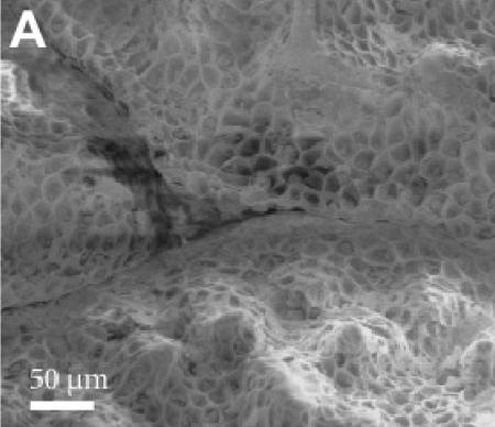 Scale surface of Moloch horridus. Scanning electron microscope. The honeycomb-like ornamentation renders the surface extremly hydrophilic, allowing the thorny devil to have a thin water film on its skin after a shower, misty morning etc. The water is then sucked into small interscalar channels, which transport the water to the mouth of the devil by capillary forces.